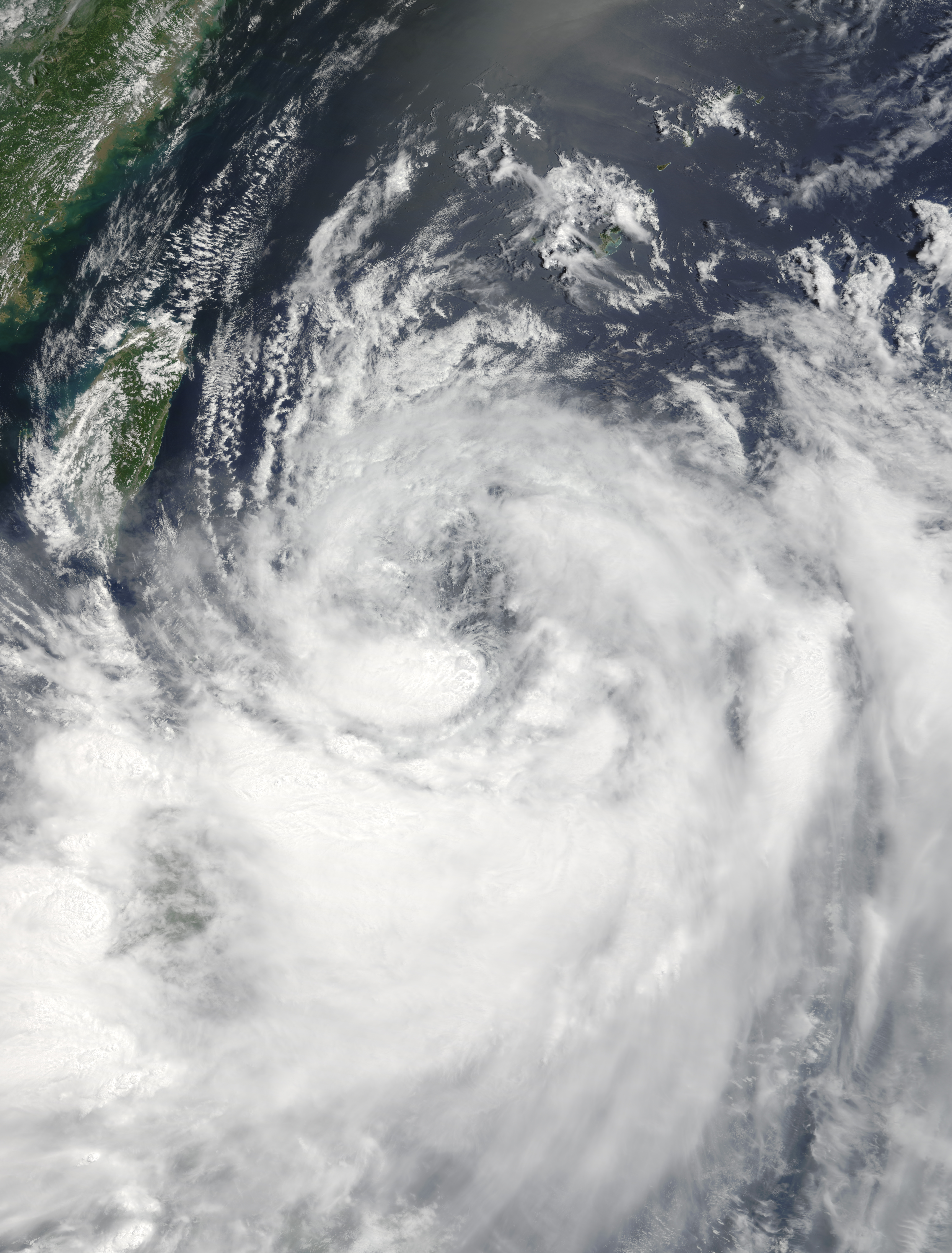 MODIS satellite image of Tropical Storm Bilis near peak intensity from July 12 at 0225 UTC.